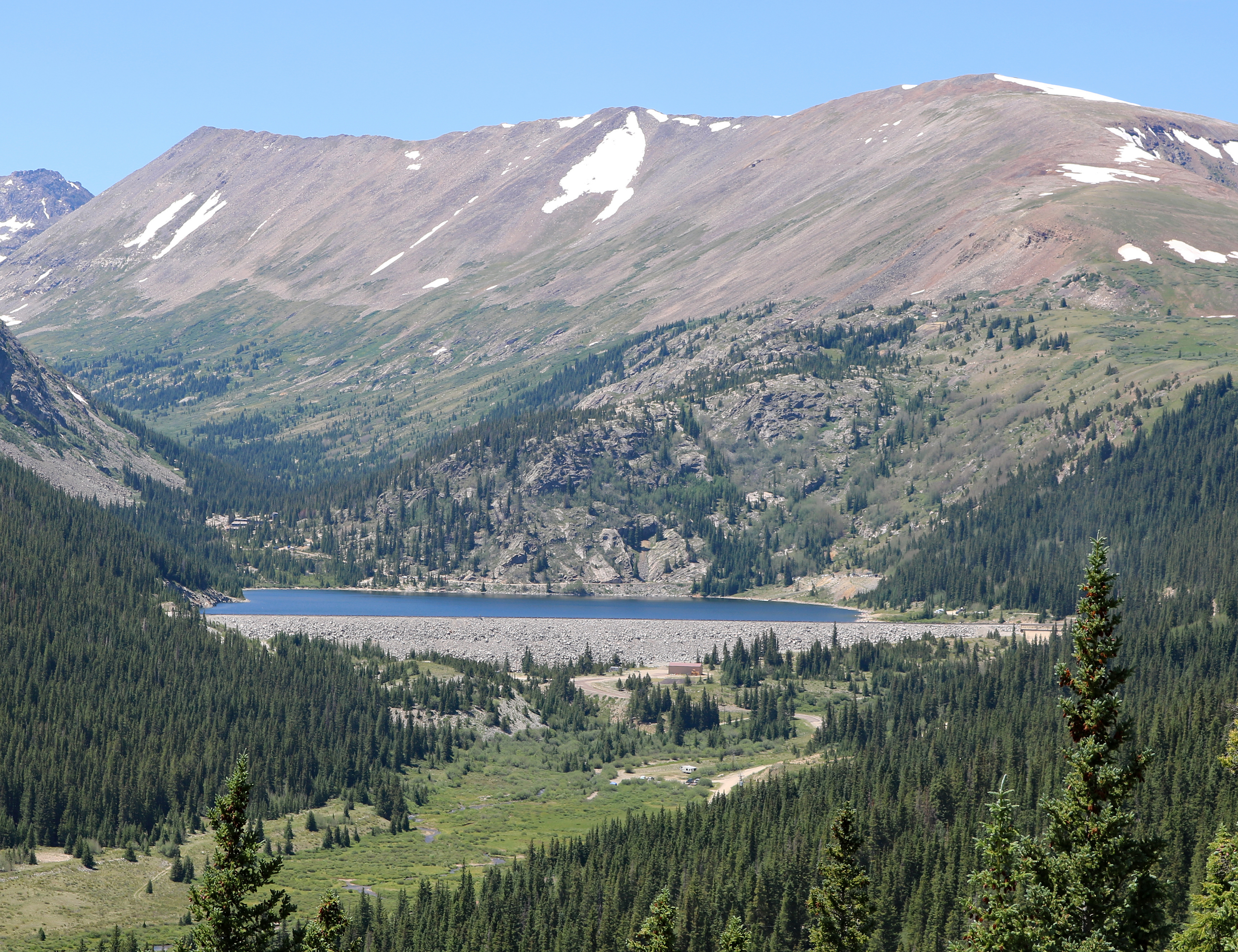 A view of Montgomery Reservoir in Park County, Colorado.